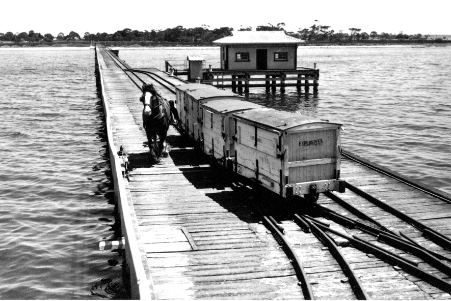 Truganina Explosives Reserve, Altona, Tramway on Explosives Loading Pier. The Clydesdale horse was one of many working at the Reserve.